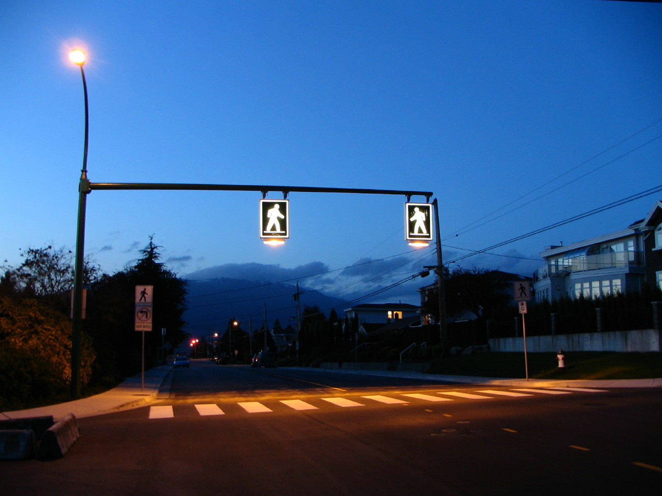 Crosswalk in Burnaby British Columbia Canada